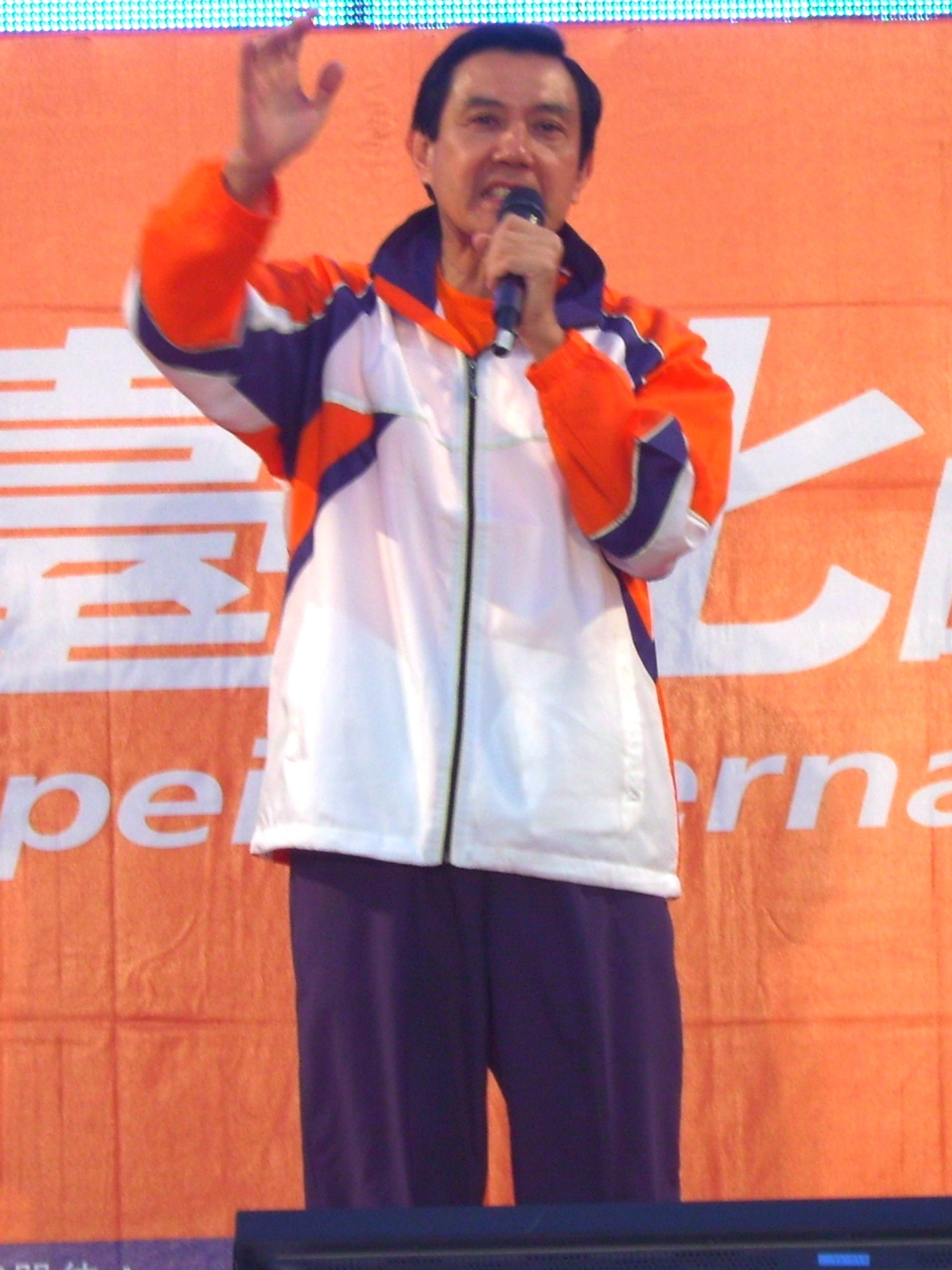 Current Taipei City Mayor Ying-jeou Ma at 2006 ING the 10th Taipei Intermational Marathon.